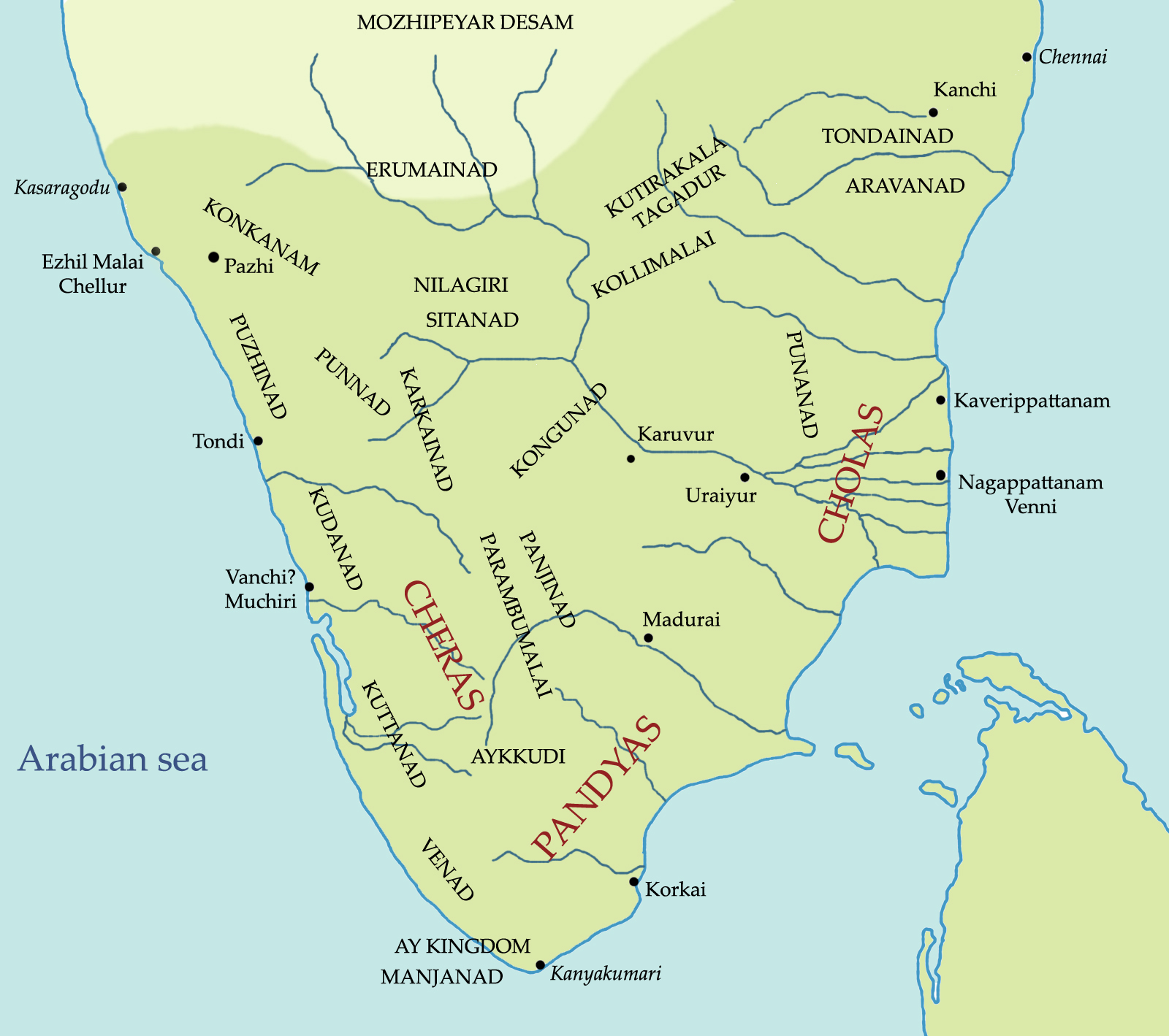 South India in Sangam Period, based on the chart in "A Survey Of Kerala History" by A Sreedhara Menon